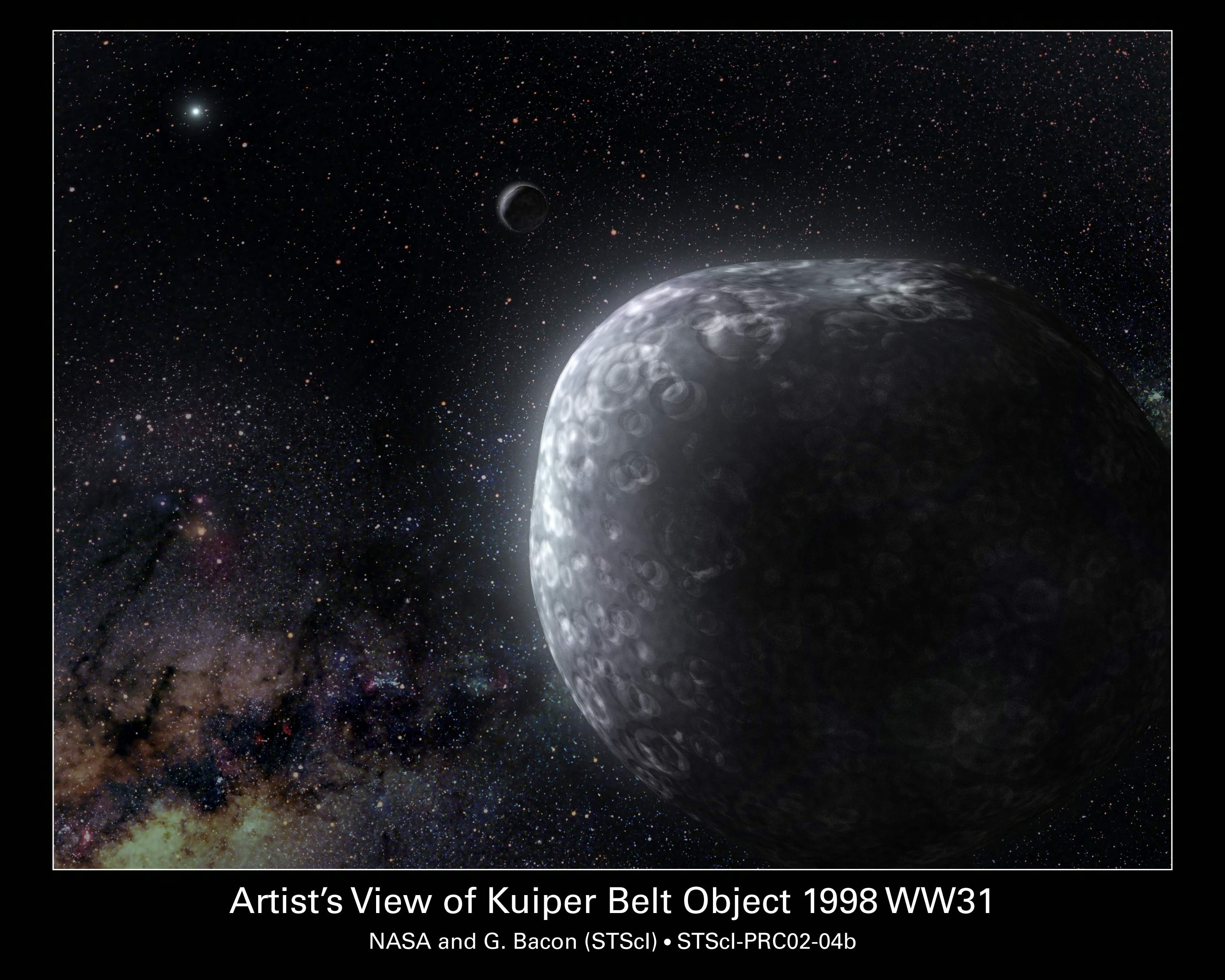 Artist's Impression of the Double Kuper Belt object 1998 WW31.